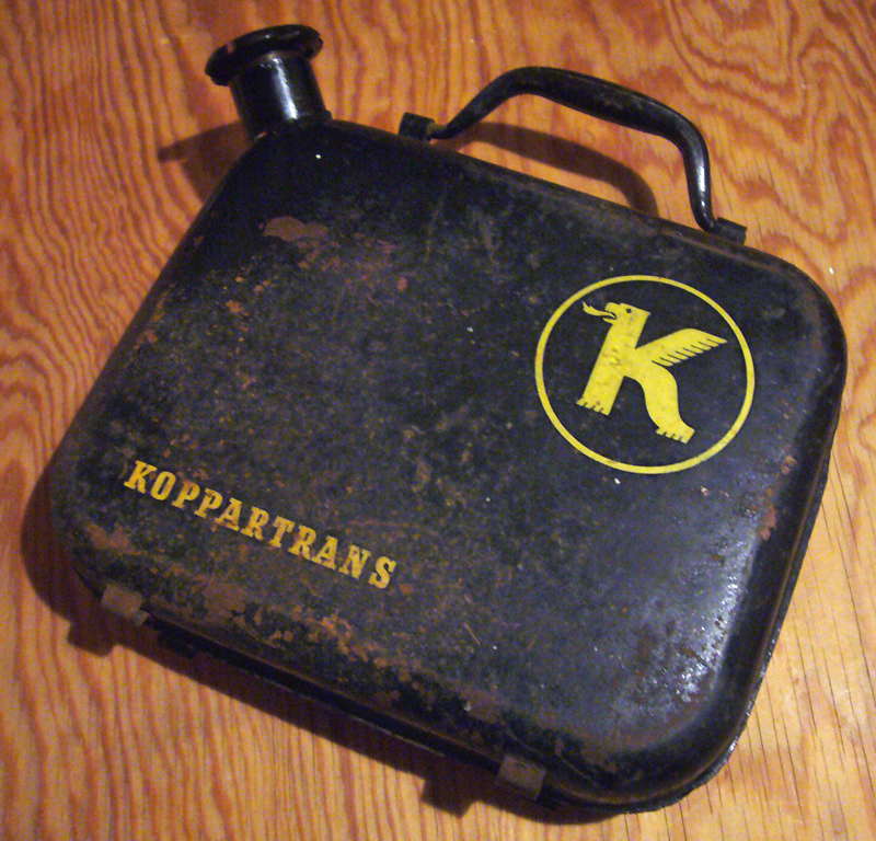 Gasoline can from the former swedish gas company Koppartrans (1947-75).